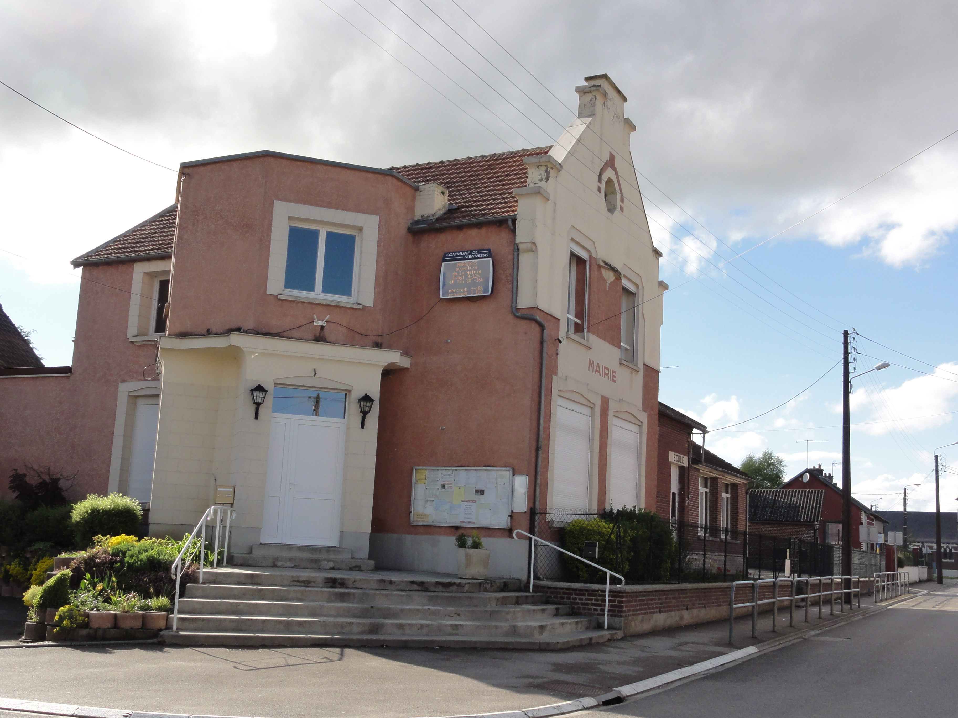 Mennessis (Aisne) mairie